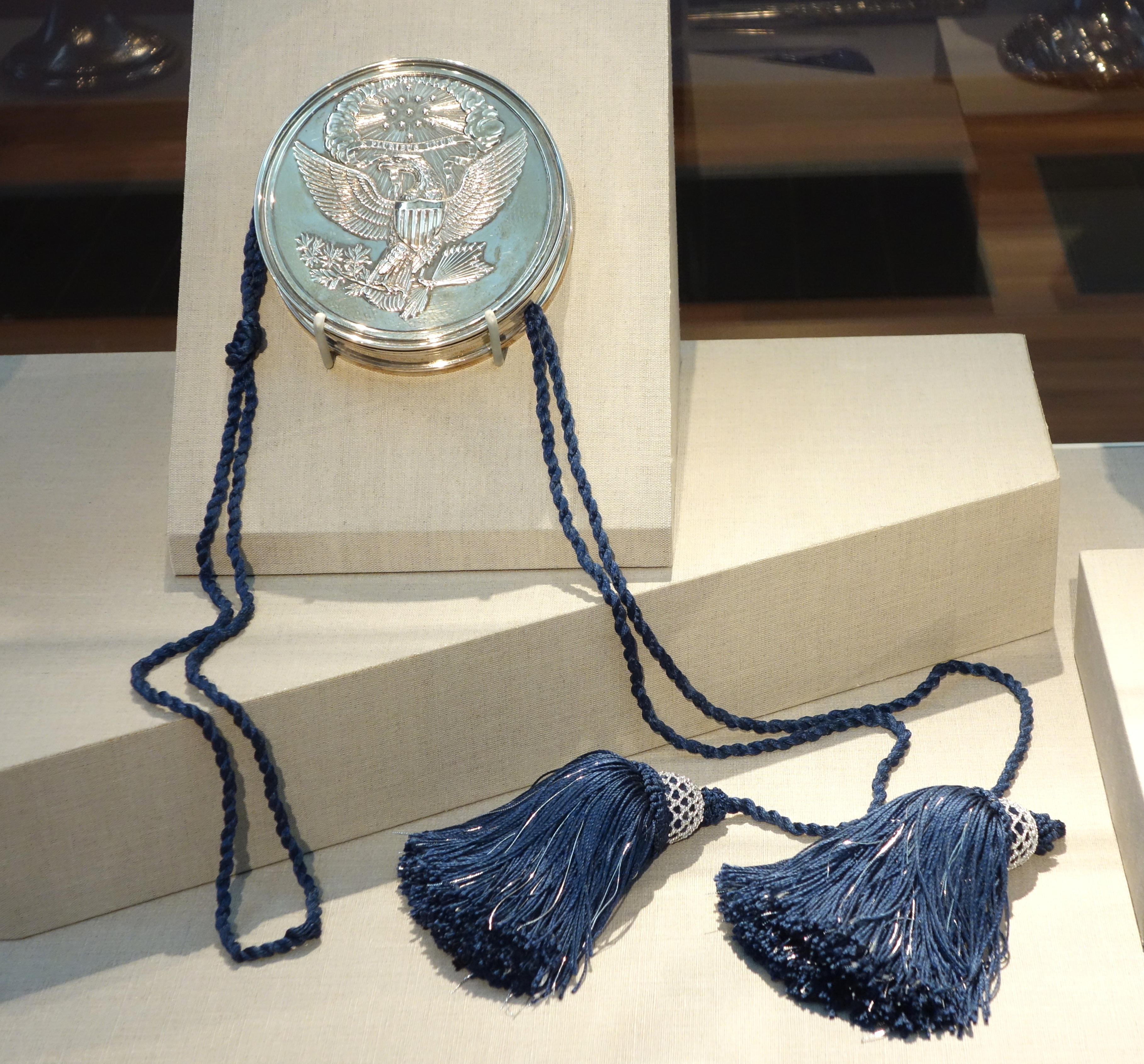 Exhibit in the De Young Museum, San Francisco, California, USA. This artwork is in the public domain because the artist died more than 70 years ago.